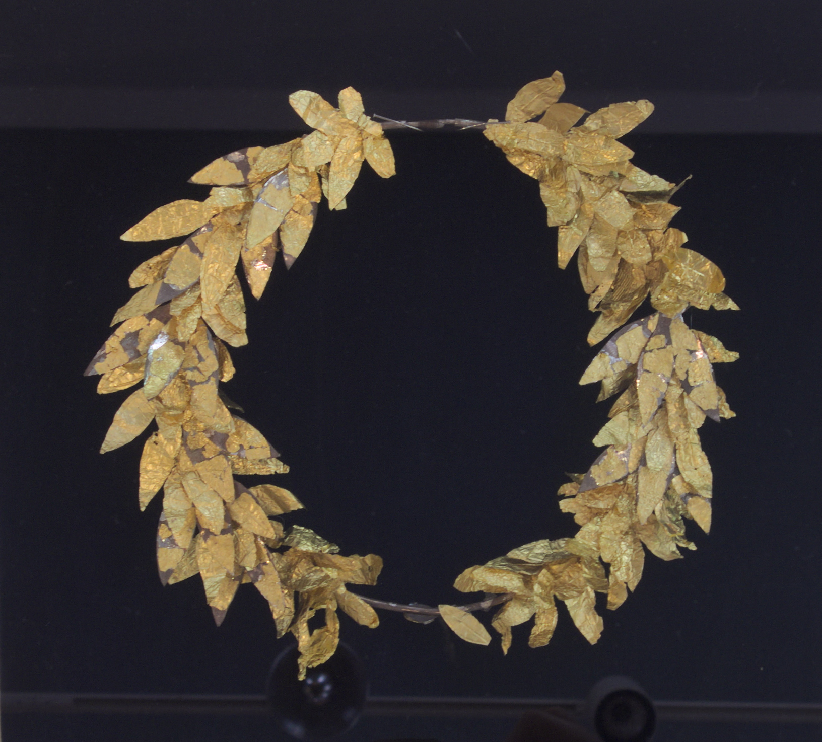 A gold wreath with 133 leaves found in Agia Eleousa and now is exhibited in the Archaeological museum of Chalkida. It dates from 90 BC and probably belong to the athlete Theoklis Pausaniou, from Chalkida.